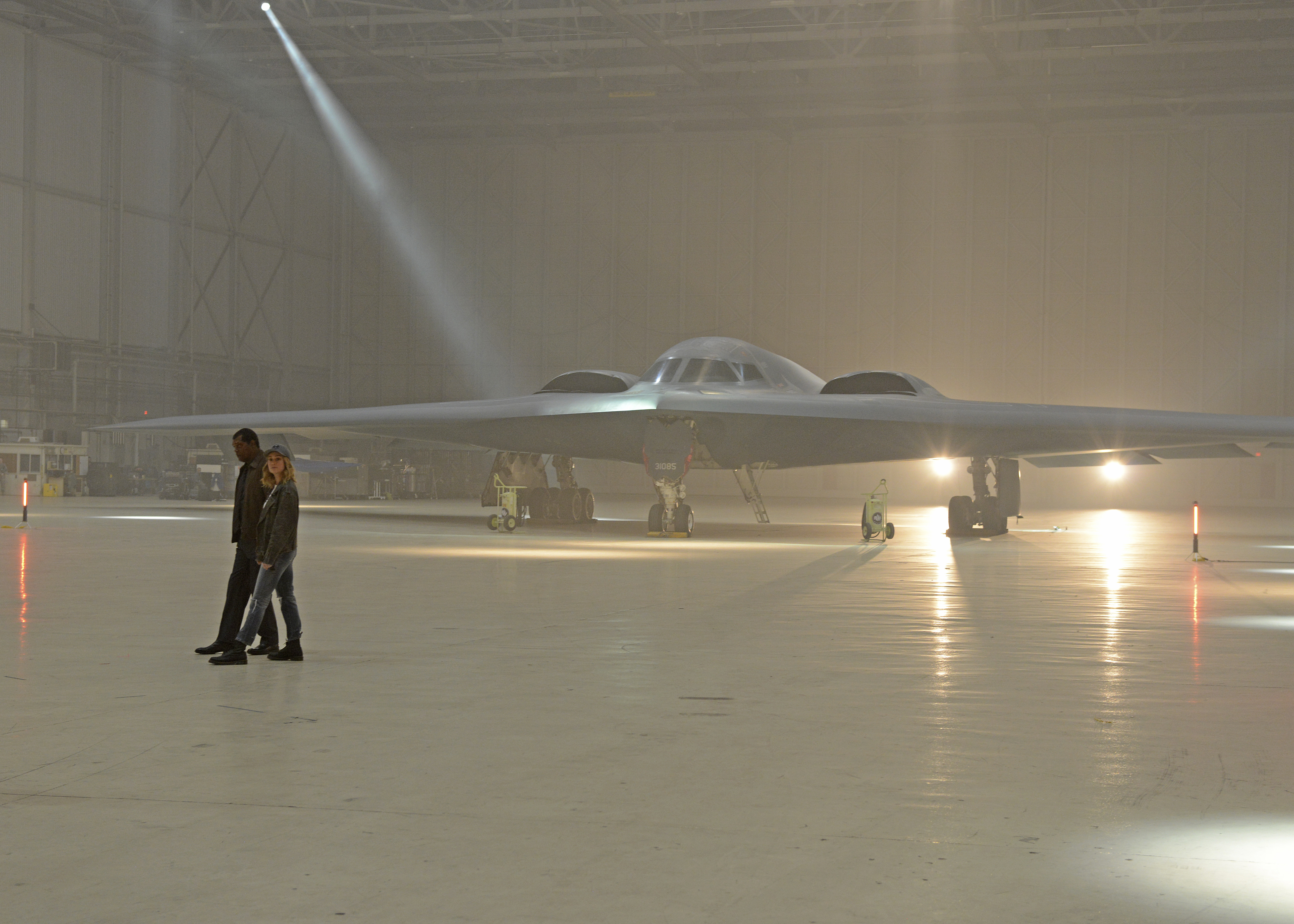 Brie Larson and Samuel L. Jackson, “Captain Marvel” stars, on set during filming at Edwards Air Force Base, Calif., April 20, 2018. To ensure an accurate depiction of military service, filmmakers and actors immersed with Airmen from across the Air Force. (U.S. Air Force photo by Kenji Thuloweit)